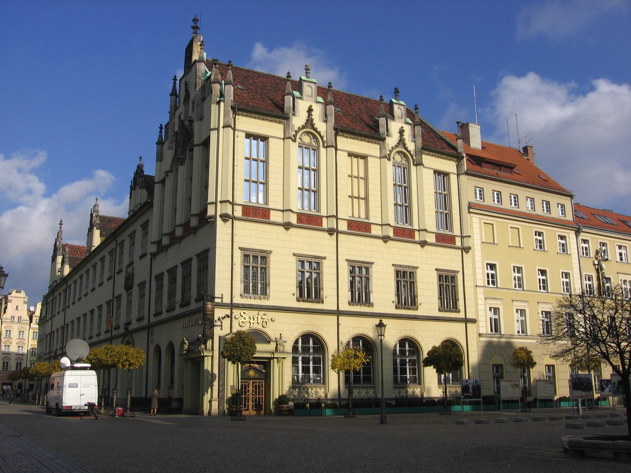 New Town Hall in Wrocław, south-west corner